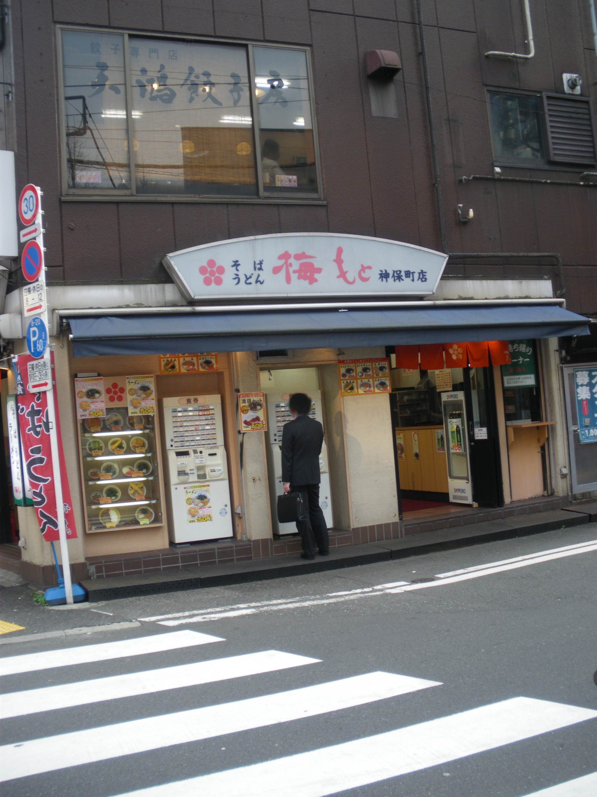 A photo of Umemoto Jimbocho branch shop,Kandajimbocho,Chiyoda-ku,Tokyo,Japan.